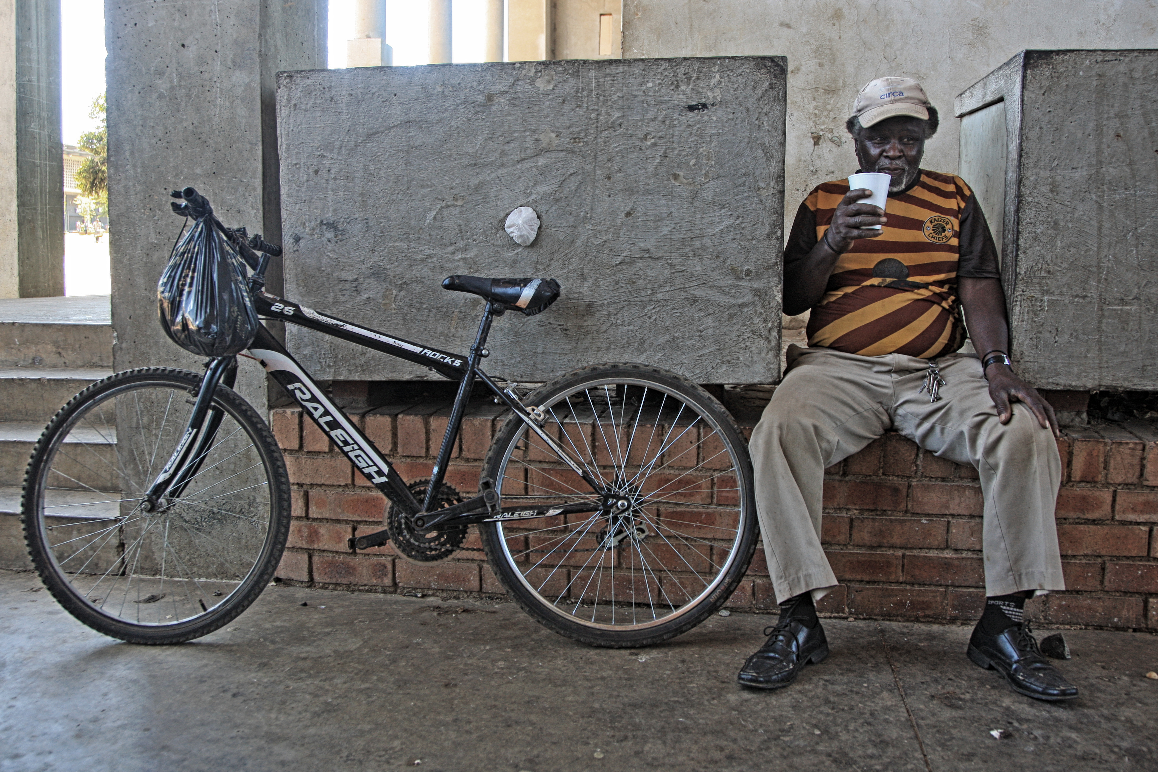 Cyclist in Soweto This is an image with the theme "Africa on the Move or Transport" from: South Africa